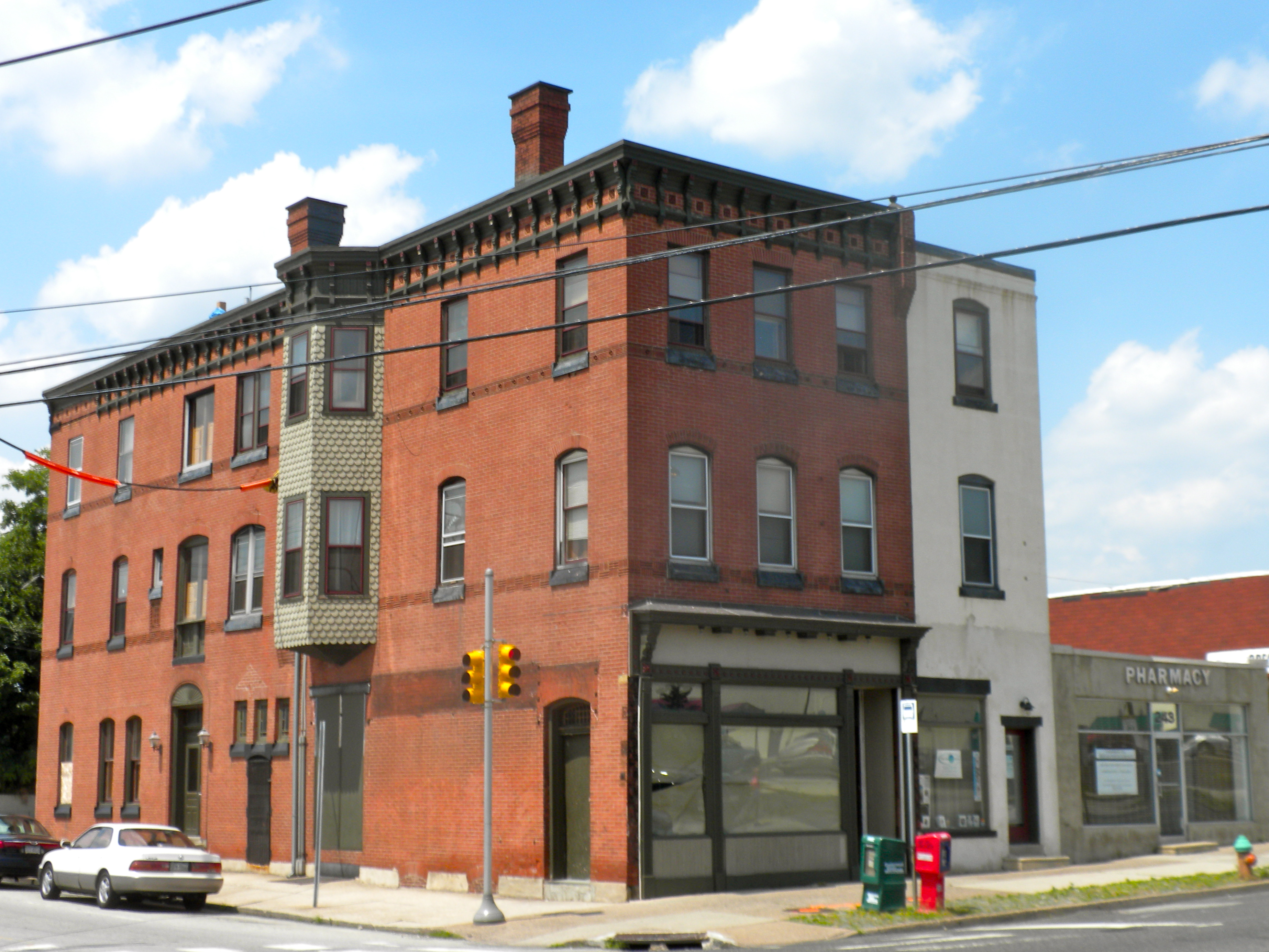 Smyser and English Pharmacy on the NRHP since February 20, 2002. At 245–247 West Chelten Avenue, right next to the Chelten Ave. SEPTA station, in Germantown neighborhood of Northwest Philadelphia. Delmar Apartments, also on NRHP is on the other side of the SEPTA station.